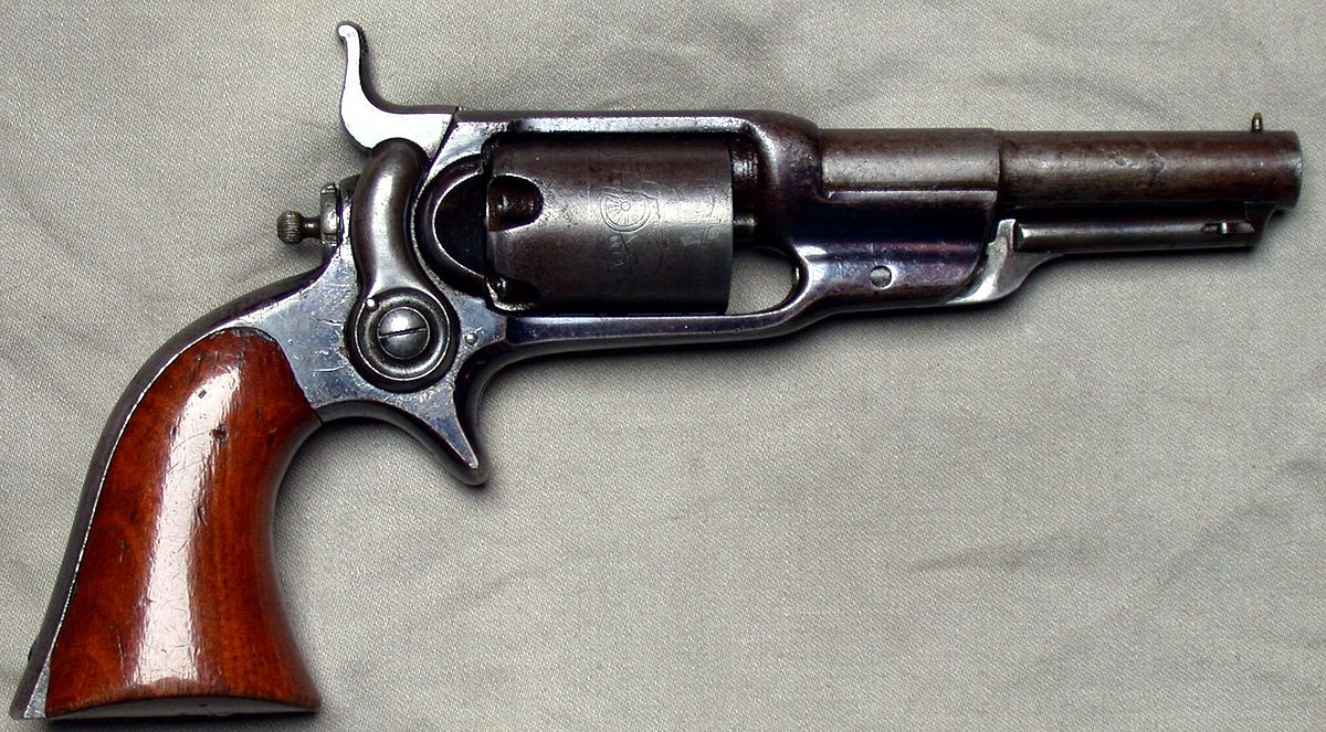 Root Mod 55 Round Barrel